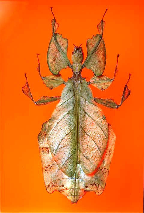 A leaf insect in the permanent collection of The Children’s Museum of Indianapolis